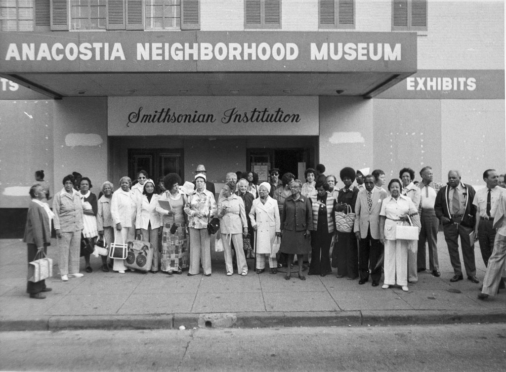 Museum historian Louise Hutchinson and members of the Anacostia Historical Society pose in front of the original Anacostia Neighborhood Museum, which opened in the renovated Carver Theater in September 1967.